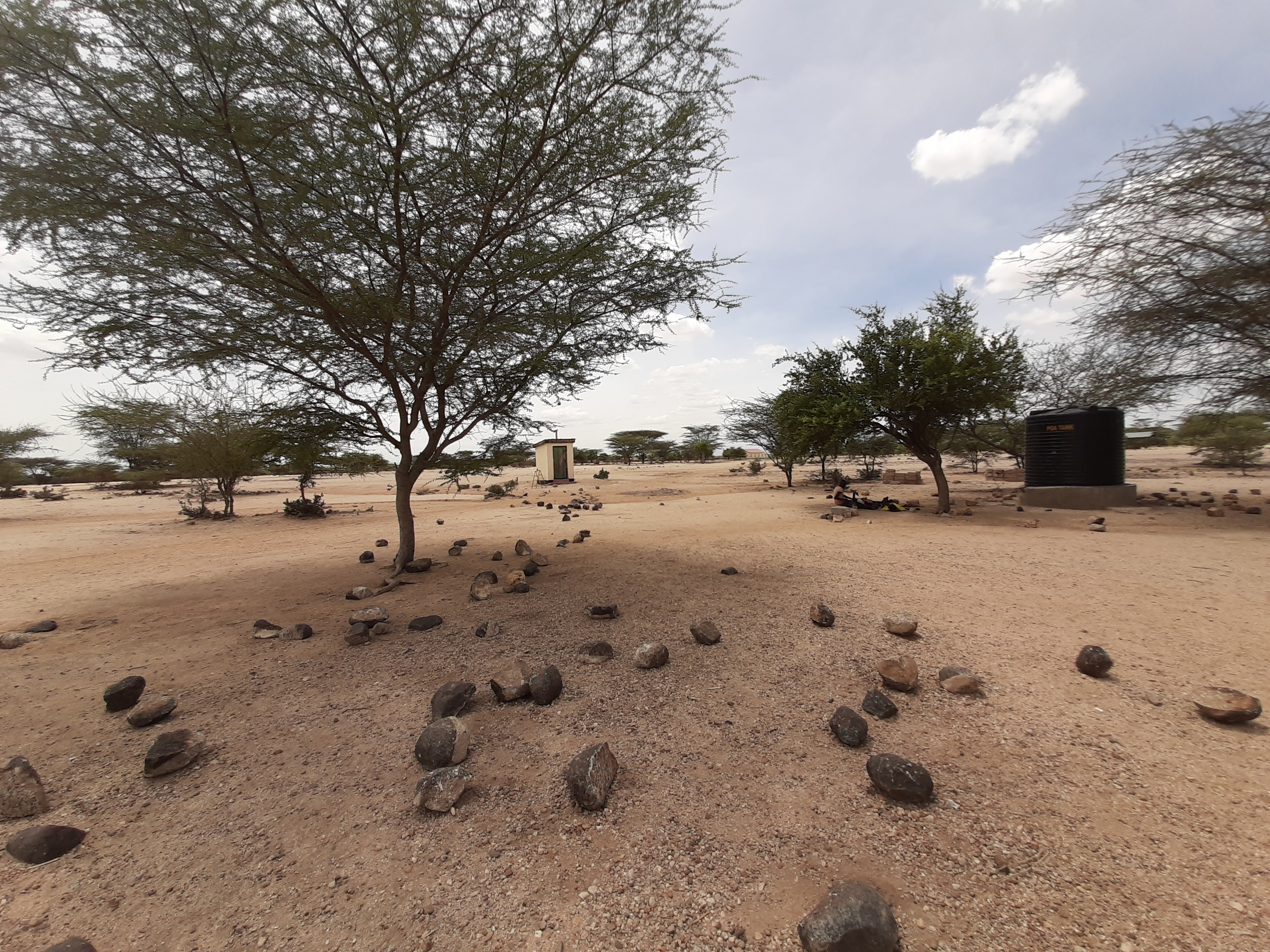 This is an image with the theme "Africa on the Move or Transport" from: Kenya